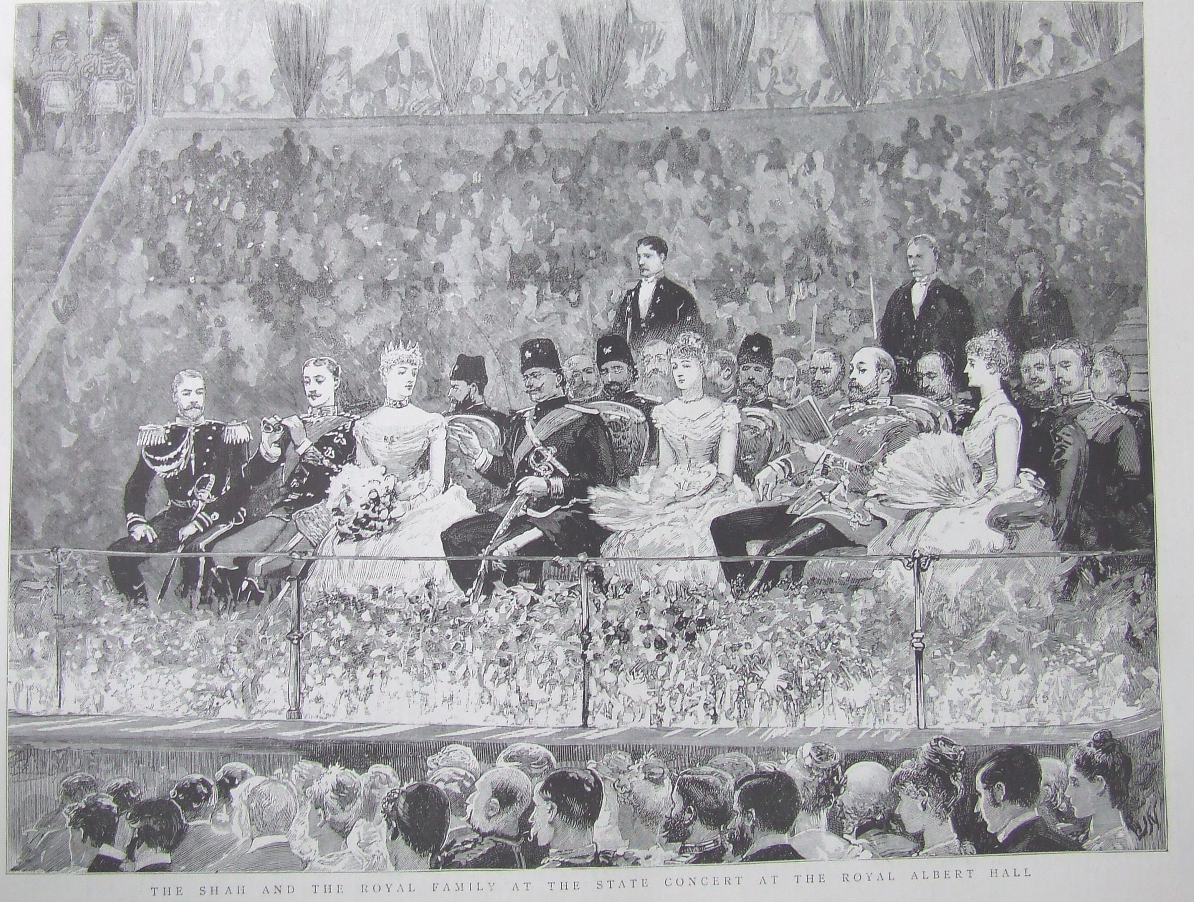 The Shah, on his European tour, in the Royal Albert Hall, London. Seated between the Princess of Wales and her sister, the Tsesarevna of Russia. From The Graphic 1889